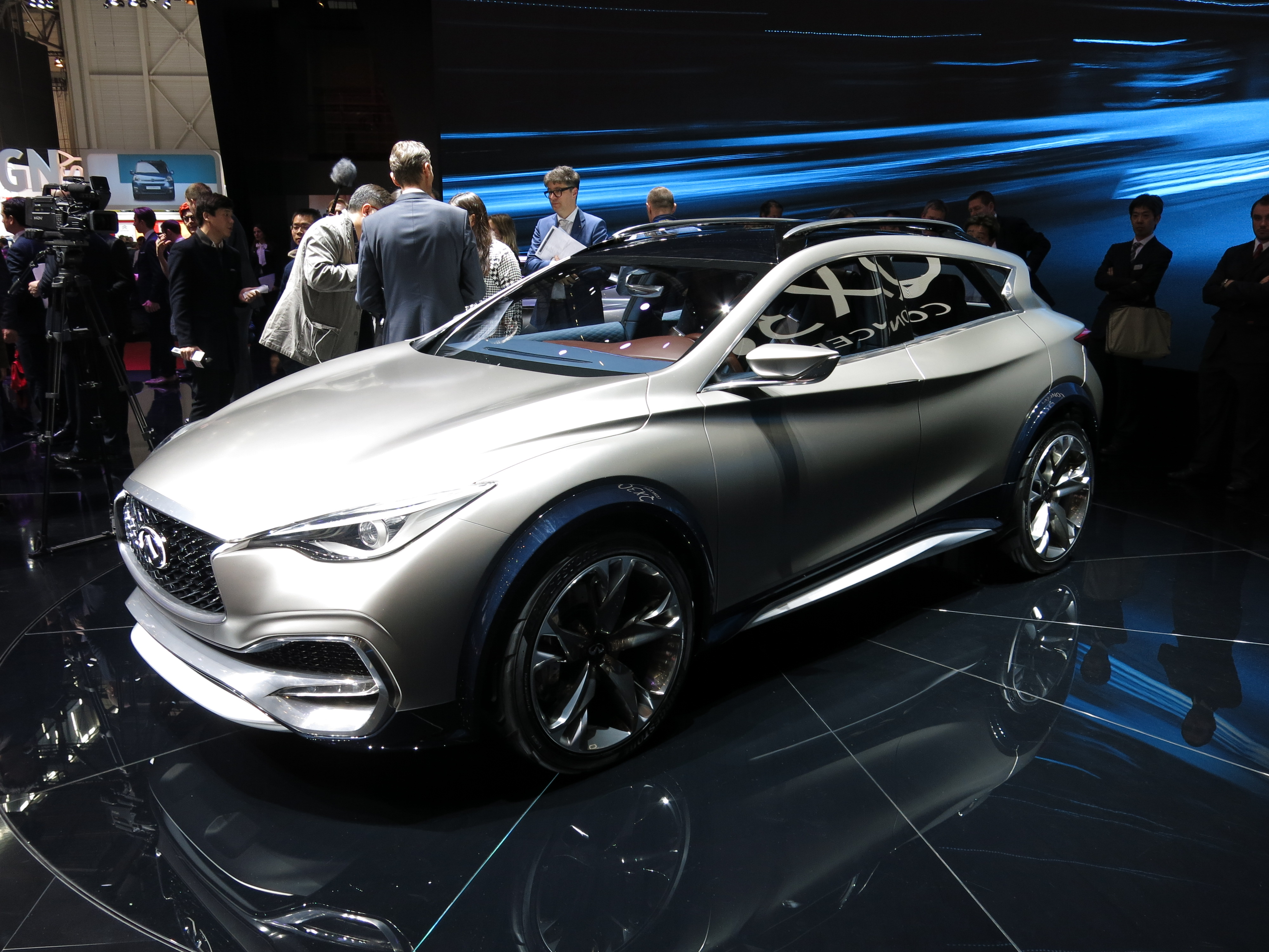 Geneva Motor Show 2015 (photo taken on the first press day)